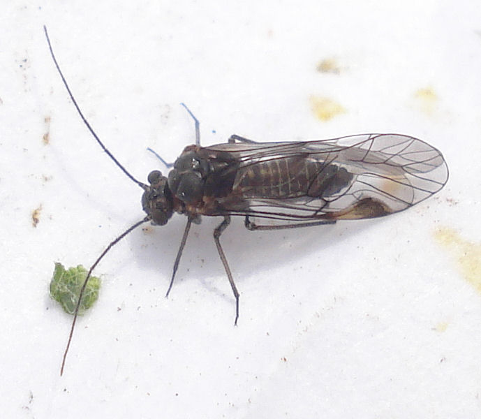 Off willow in Lincolnshire